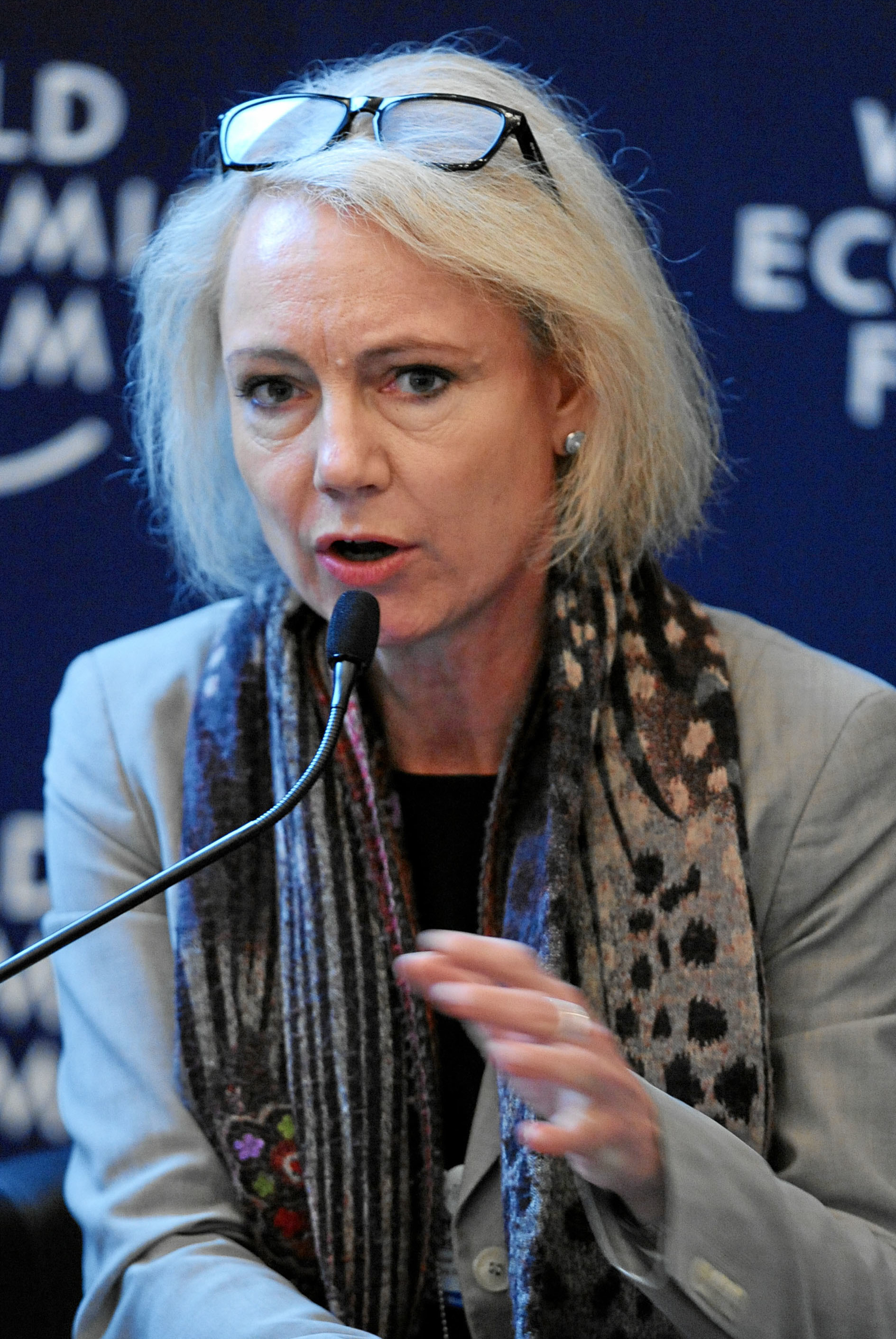 DAVOS/SWITZERLAND, 25JAN12 - Charlotte Petri Gornitzka, Director-General, Swedish International Development Cooperation Agency (Sida), Sweden is captured during the session 'The Natural Resource Context' at the Annual Meeting 2012 of the World Economic Forum at the congress centre in Davos, Switzerland, January 25, 2012. Copyright by World Economic Forum by Michael Wuertenberg